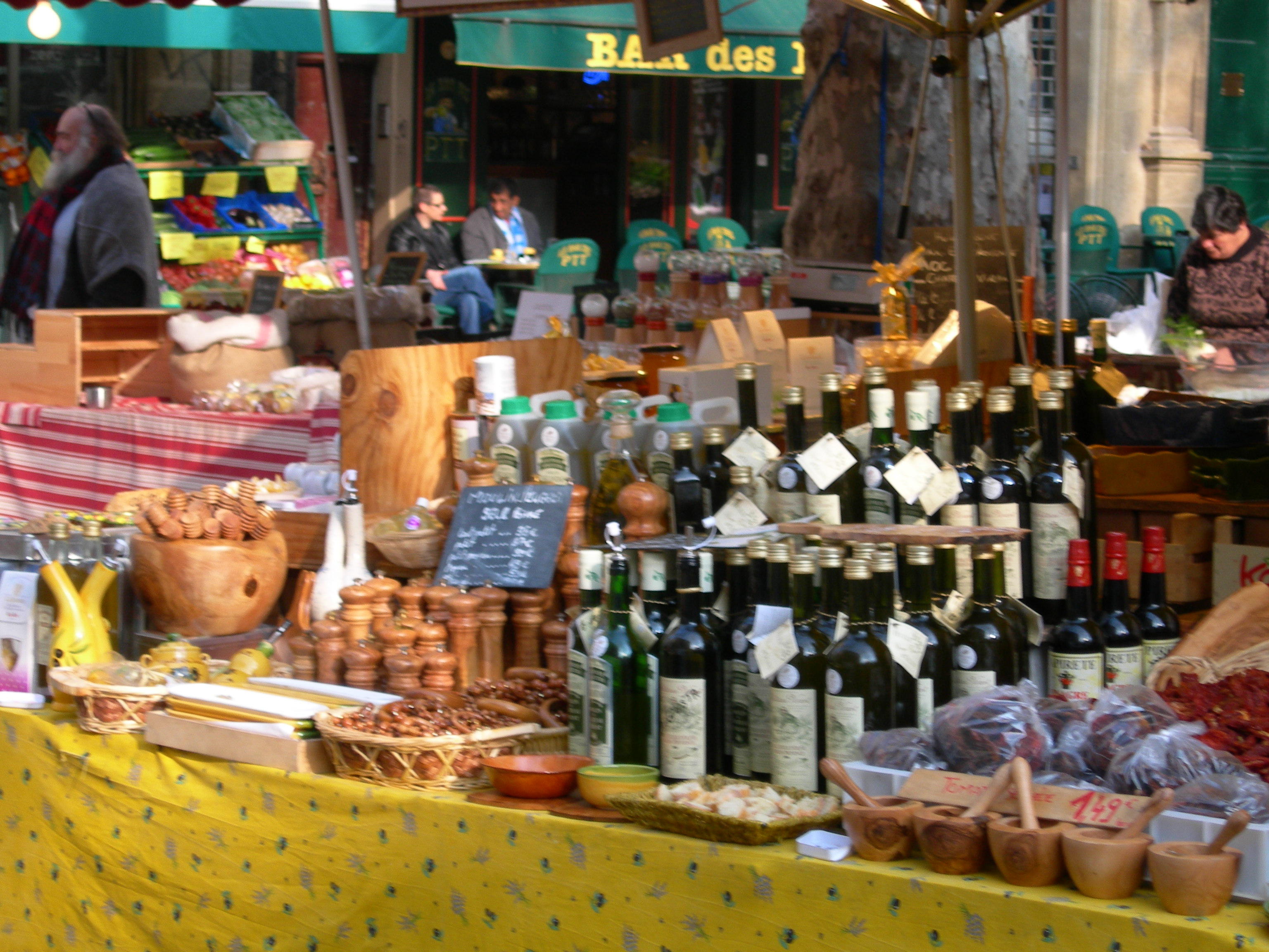 Stand Huile d'olive place Richelme Aix en Provence